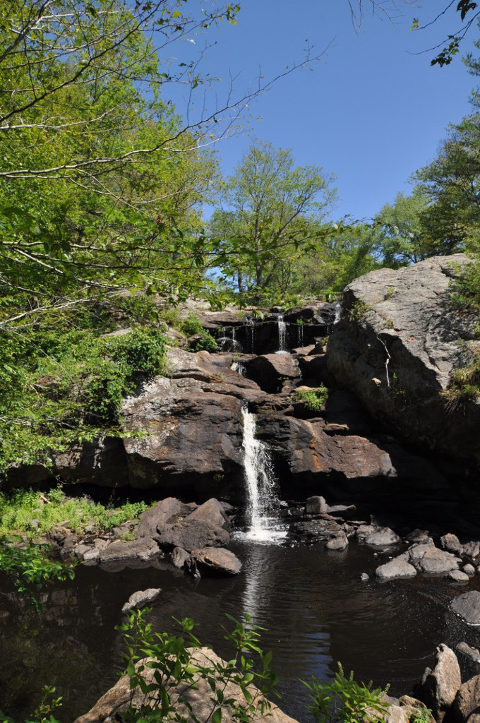 Chapman Falls, Devil's Hopyard State Park, East Haddam, Connecticut.